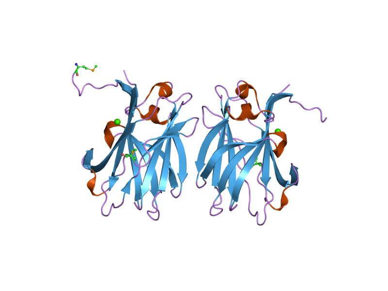 Cartoon representation of the molecular structure of protein registered with 1of3 code.